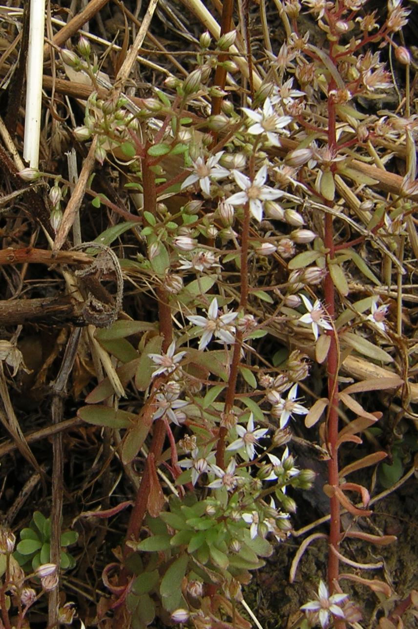 Sedum cepaea Angers, France Source : [1]